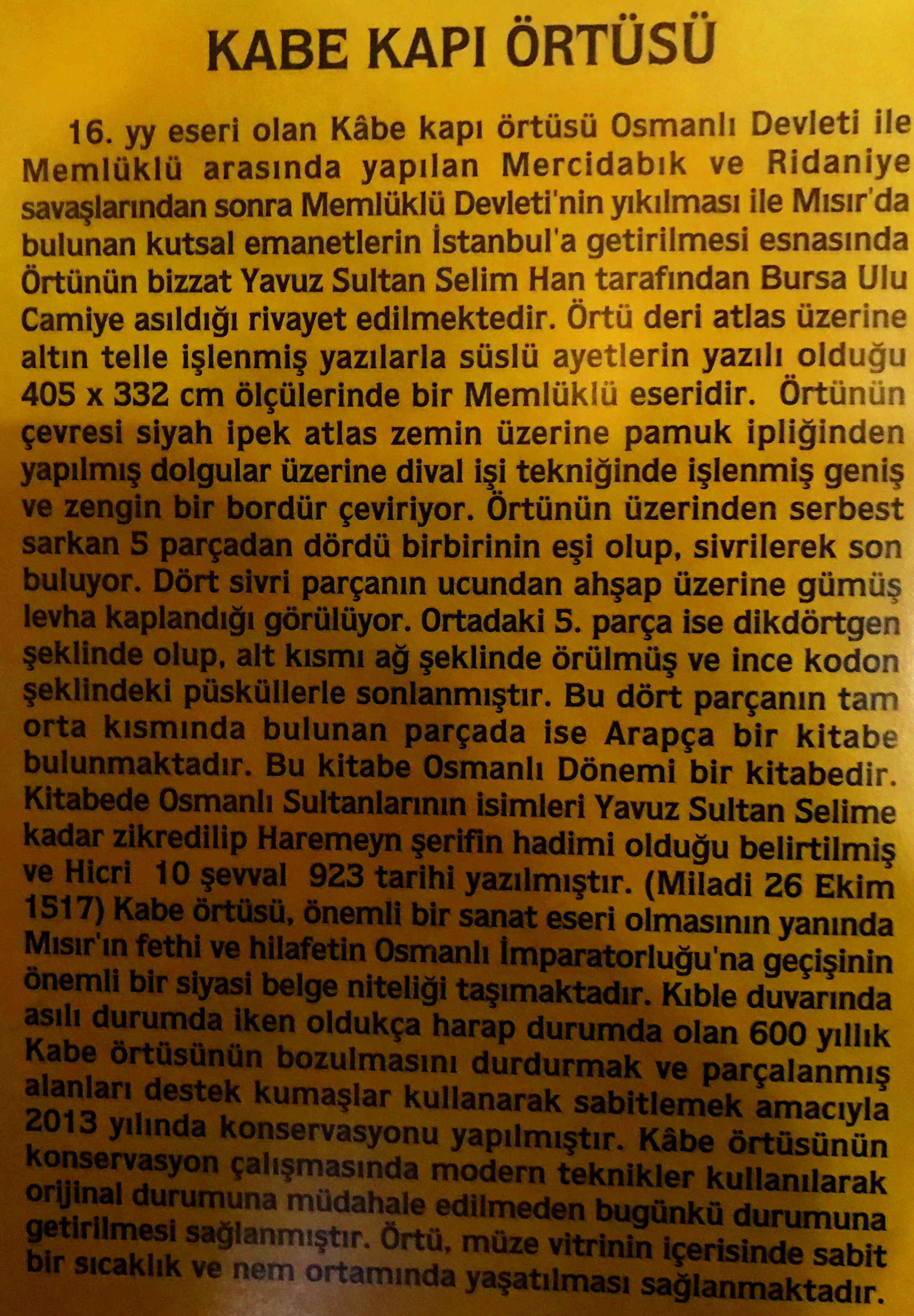 This is an information panel in Turkish, available beside The Mamluk Kaaba Curtain in the Bursa Grand Mosque, Turkey.